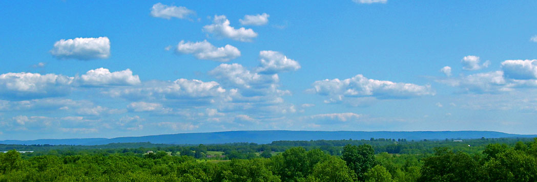 Photographed by Daniel Case from North Kaisertown Road in the Town of Montgomery 2006-08-17.